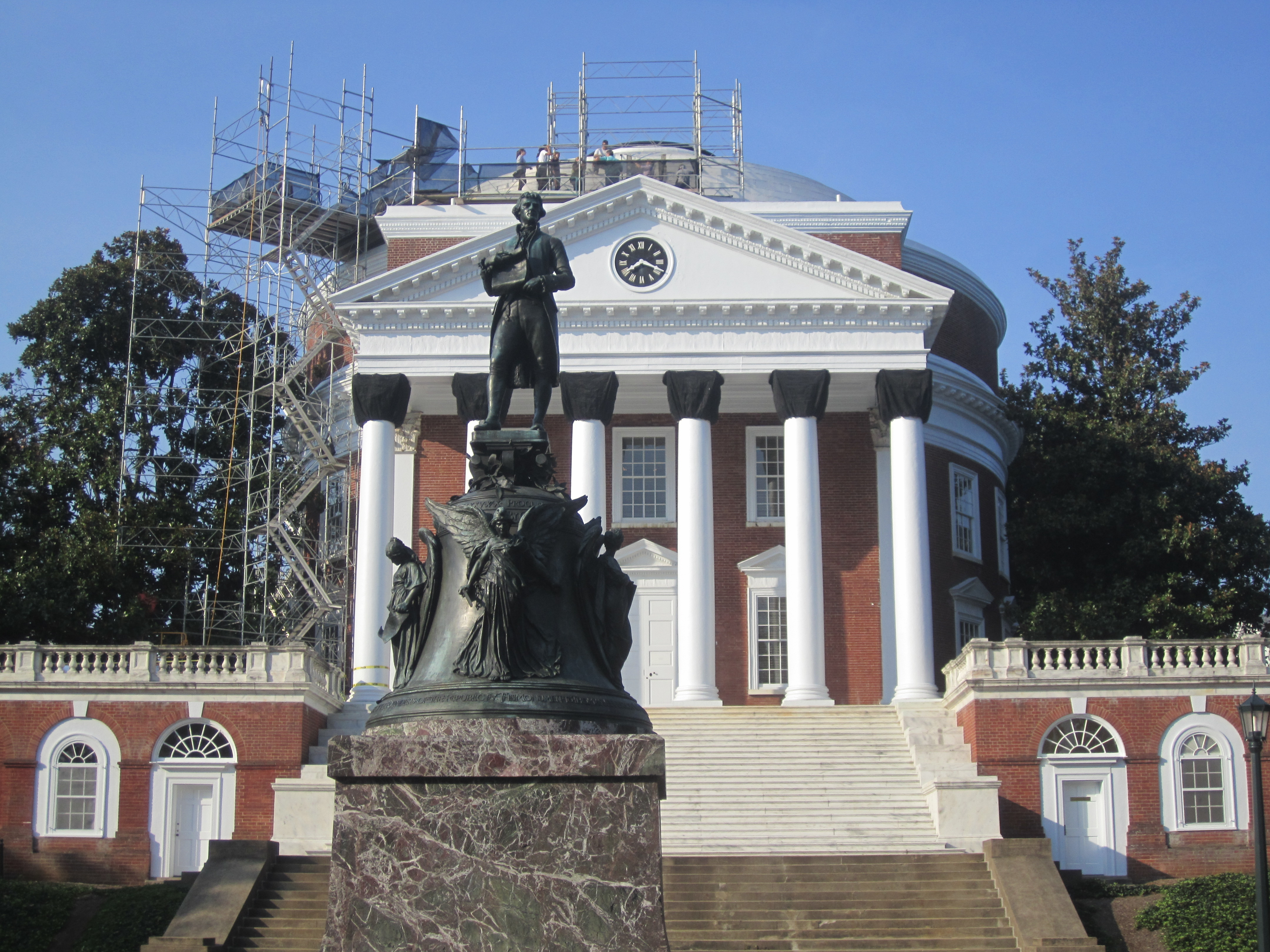 I took photo with Canon camera at the Univ. of VA of construction on the Routunda.